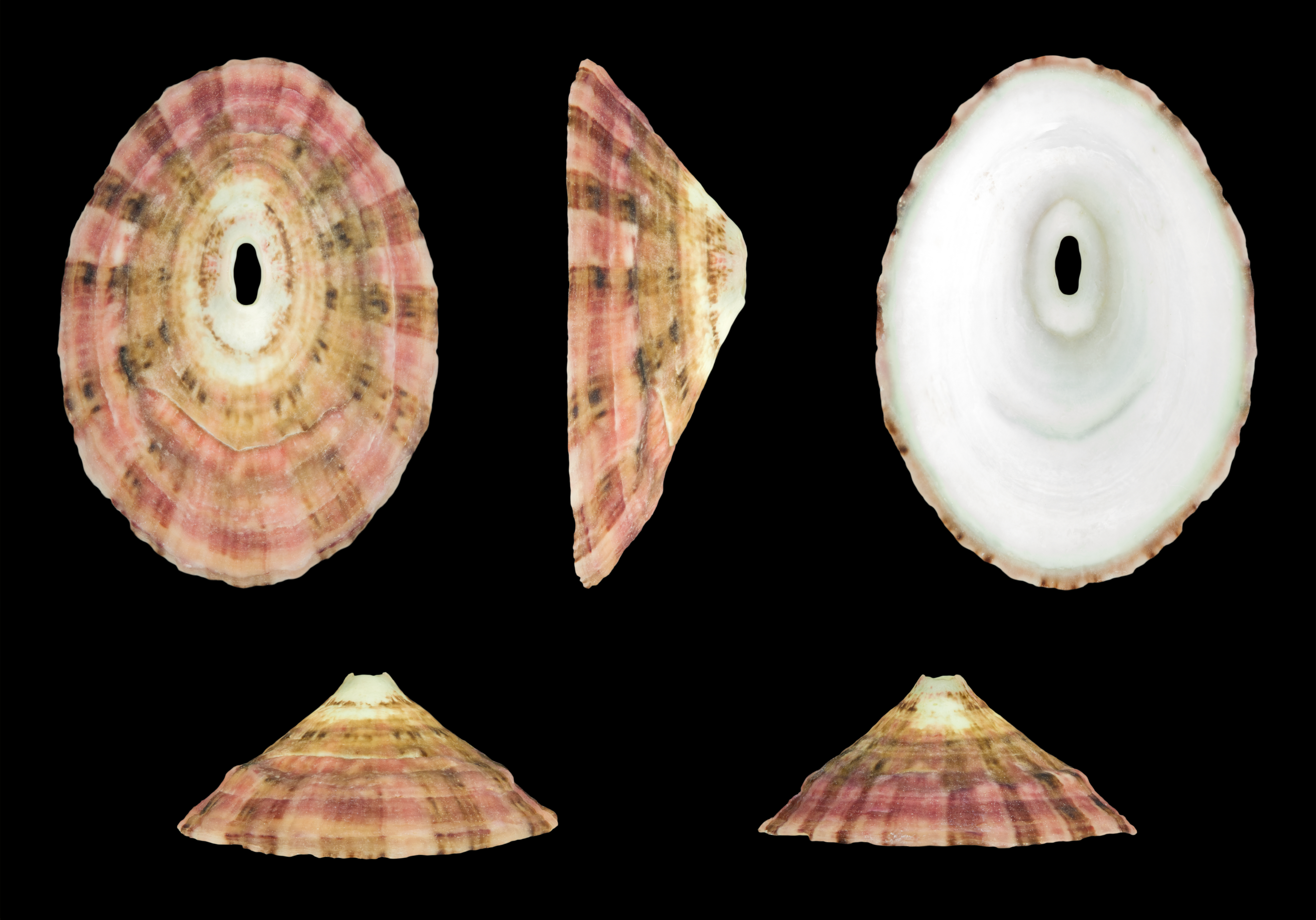 Fissurella volcano Reeve, 1849, Volcano keyhole limpet; Length 2.2 cm; Originating from San Diego, California, USA; Shell of own collection, therefore not geocoded.